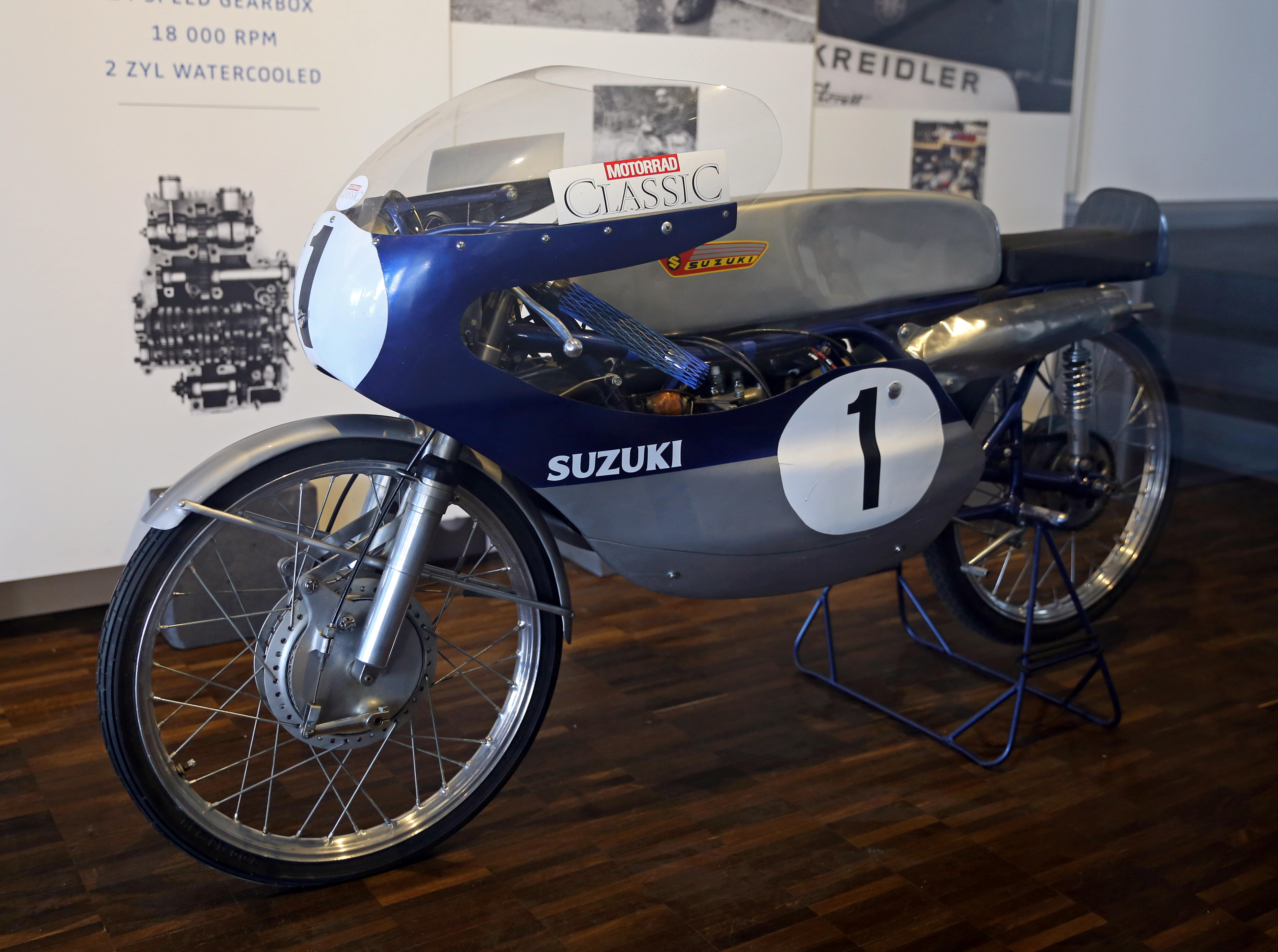 A 1967 Suzuki RK67 at Classic Remise Berlin. This 1967 racer has a 14-speed gearbox to accommodate the presumably narrow power band of a 49.75cc two-cylinder producing 18PS at 17,300rpm.